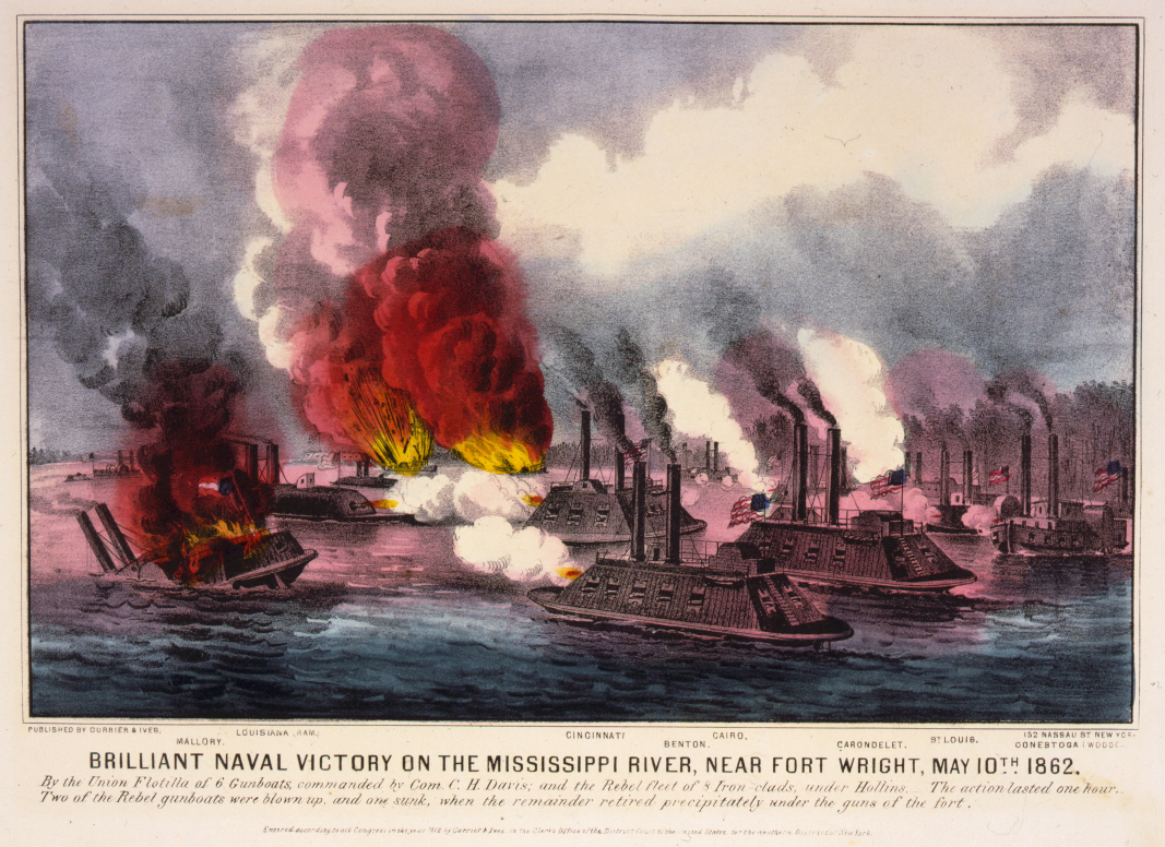 Brilliant naval victory on the Mississippi River, near Fort Wright, Tennessee, May 10th 1862. Lithograph, hand-colored.